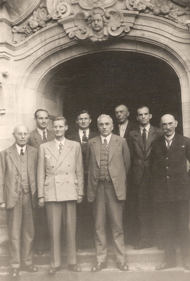 Justice Inspector Friedrich Kellner, front and center, at the door of the Laubach courthouse in Laubach, Hesse, Germany.